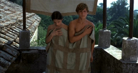 Screenshot from Il Decameron